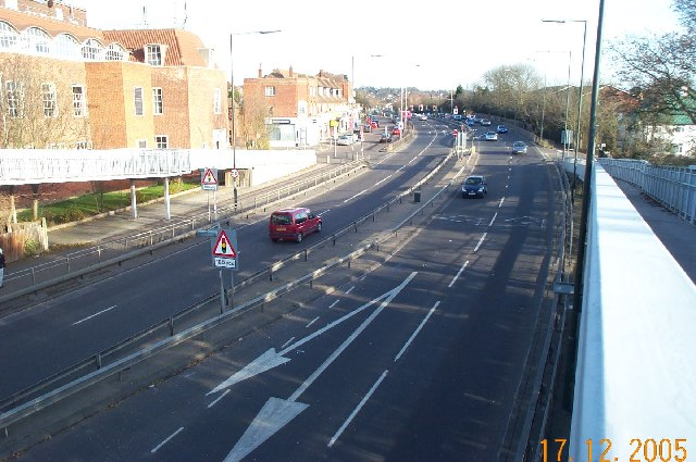 A41 Edgware Way: viewed looking eastwards from the Edgwarebury Lane footbridge.